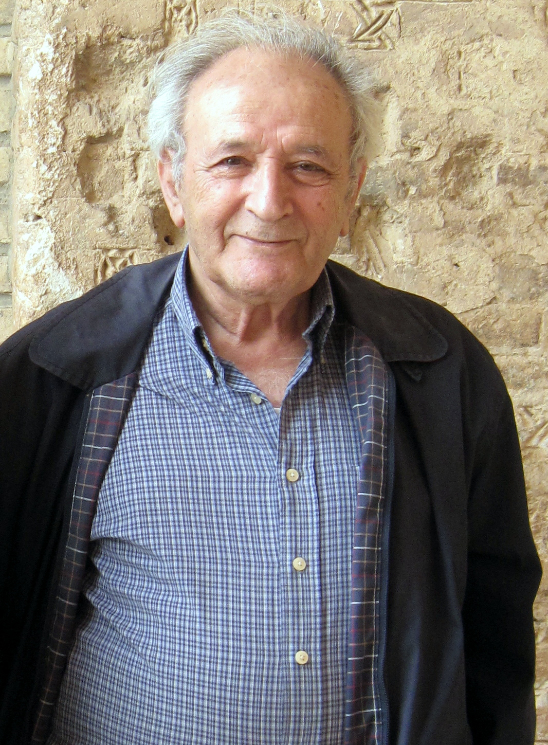 Mahmoud Mousavi (Iranian archaeologist)